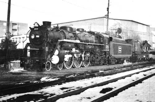 Boston and Maine 3713 at Steamtown